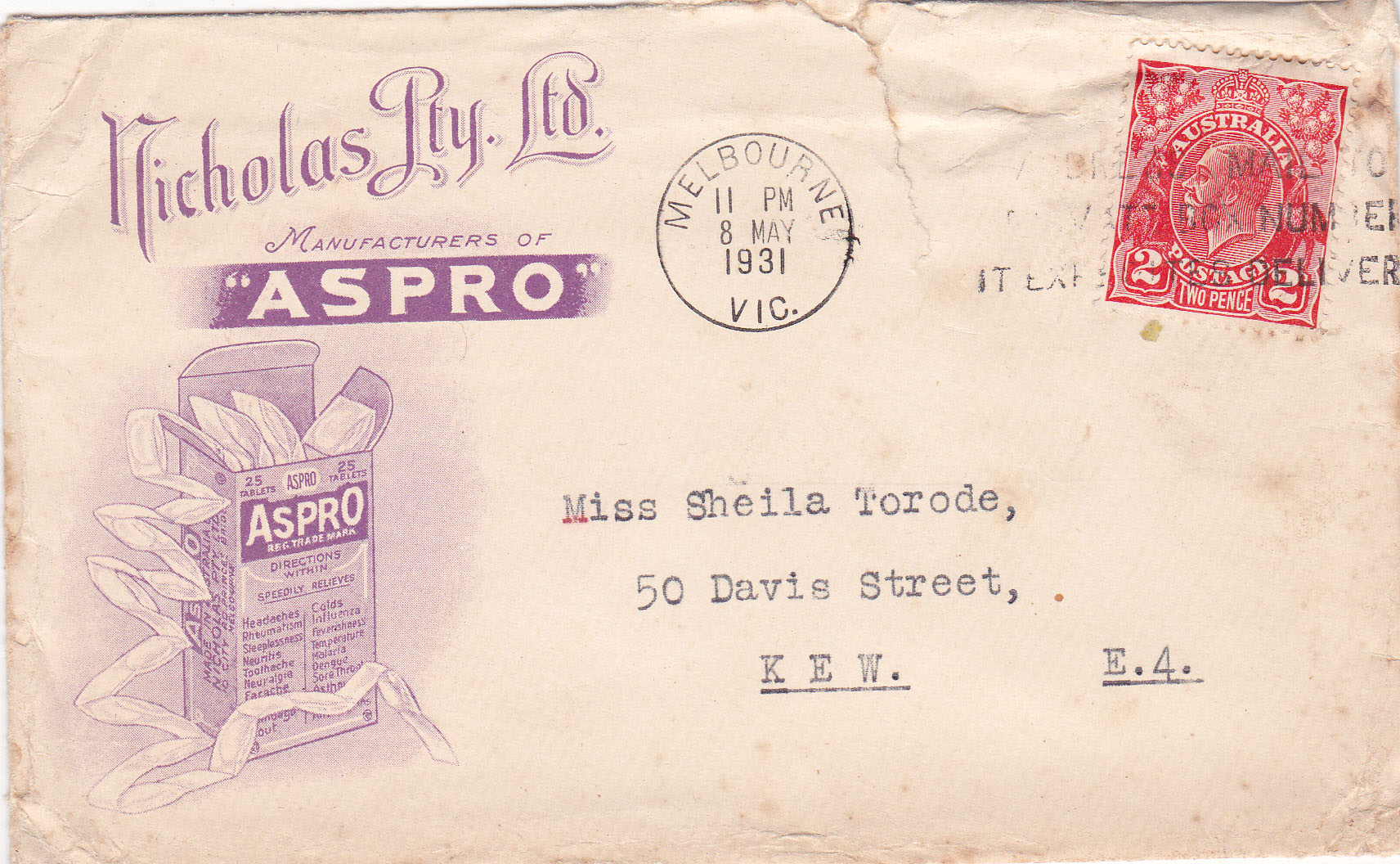 A 1931 envelope of Nicholas Pty Ltd of Melbourne, Victoria, Australia depicting their product Aspro (aspirin)